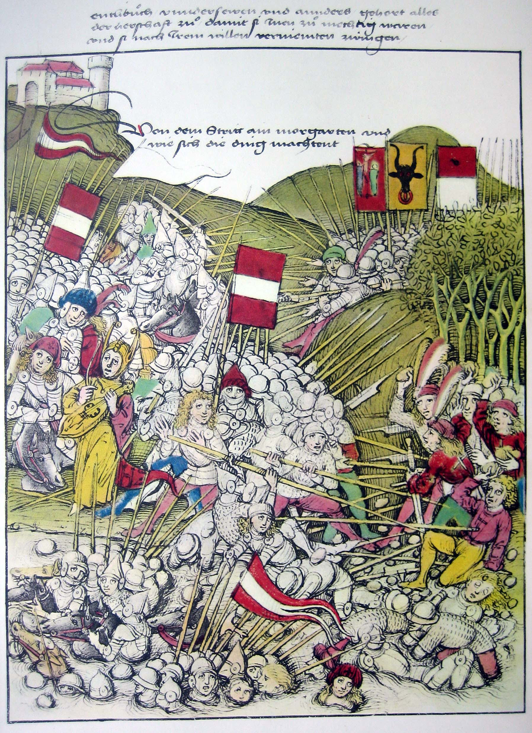 Illustration of the battle of Morgarten 1315 in the cronicle of Diebold Schilling